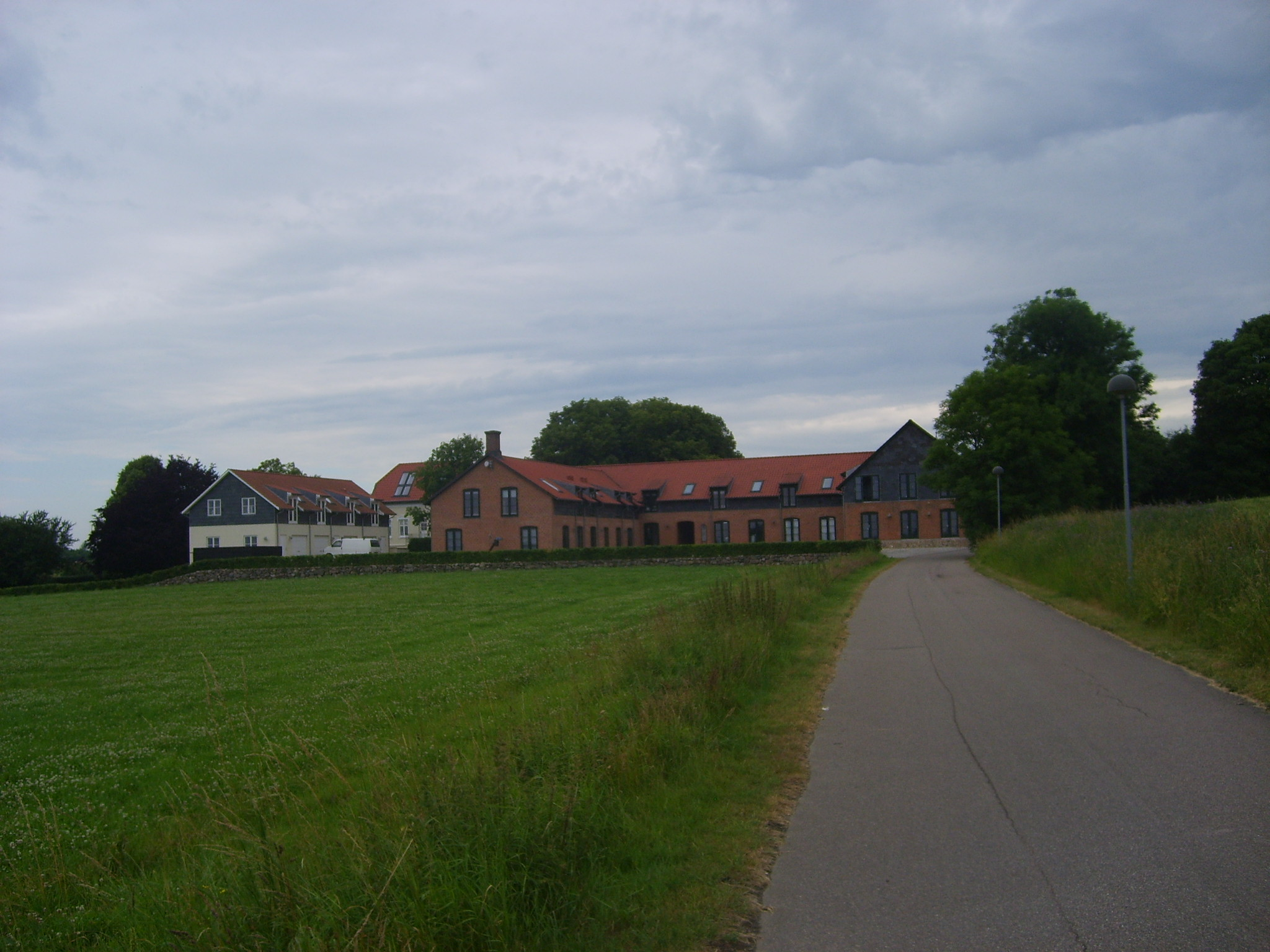 Office building in True, a suburb of Århus in Denmark. Picture taken from a walking path towards Skjoldhøjparken.